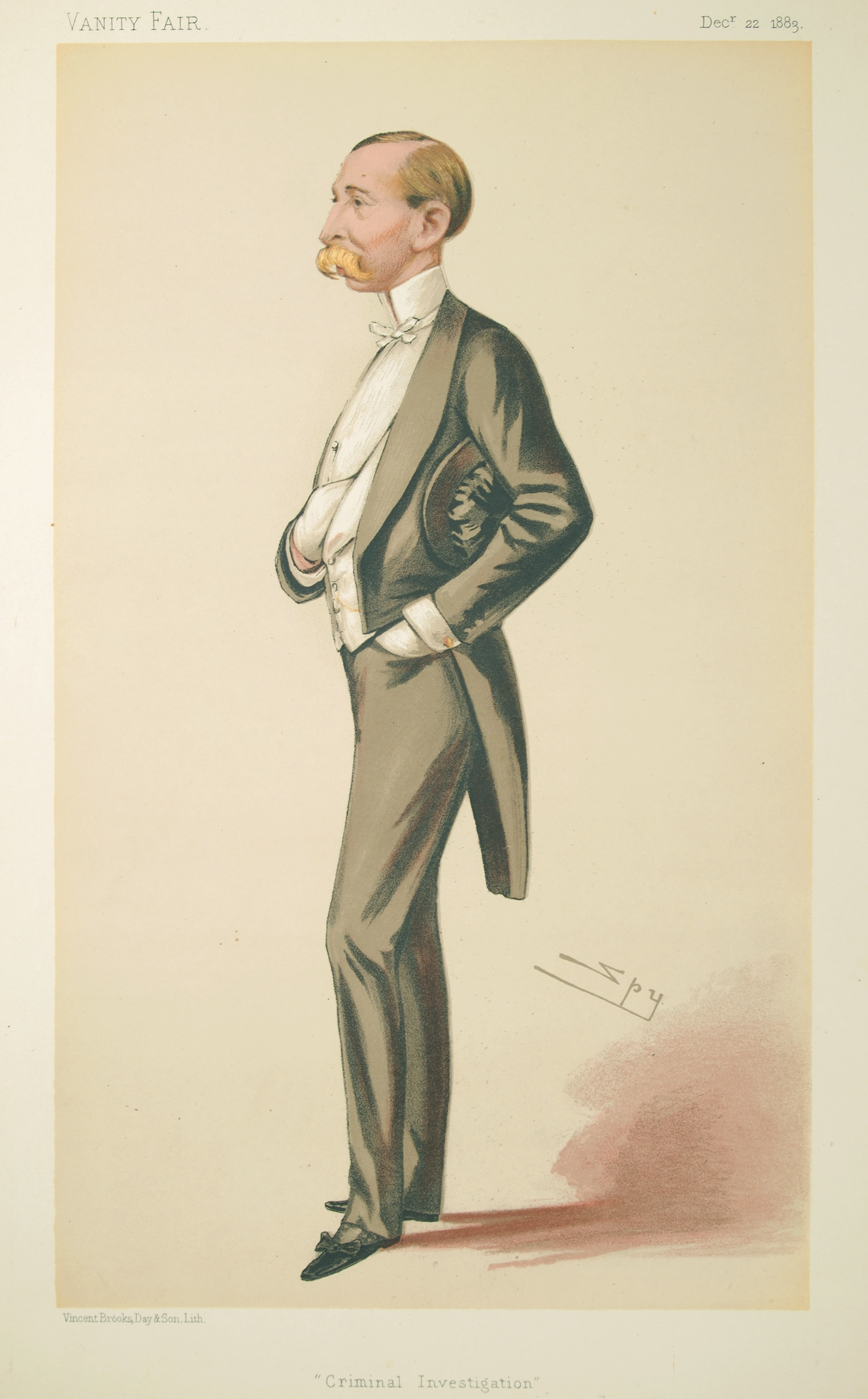 Men of the Day No.293: Caricature of Mr Charles Edward Howard Vincent. Caption reads: "Criminal Investigation"